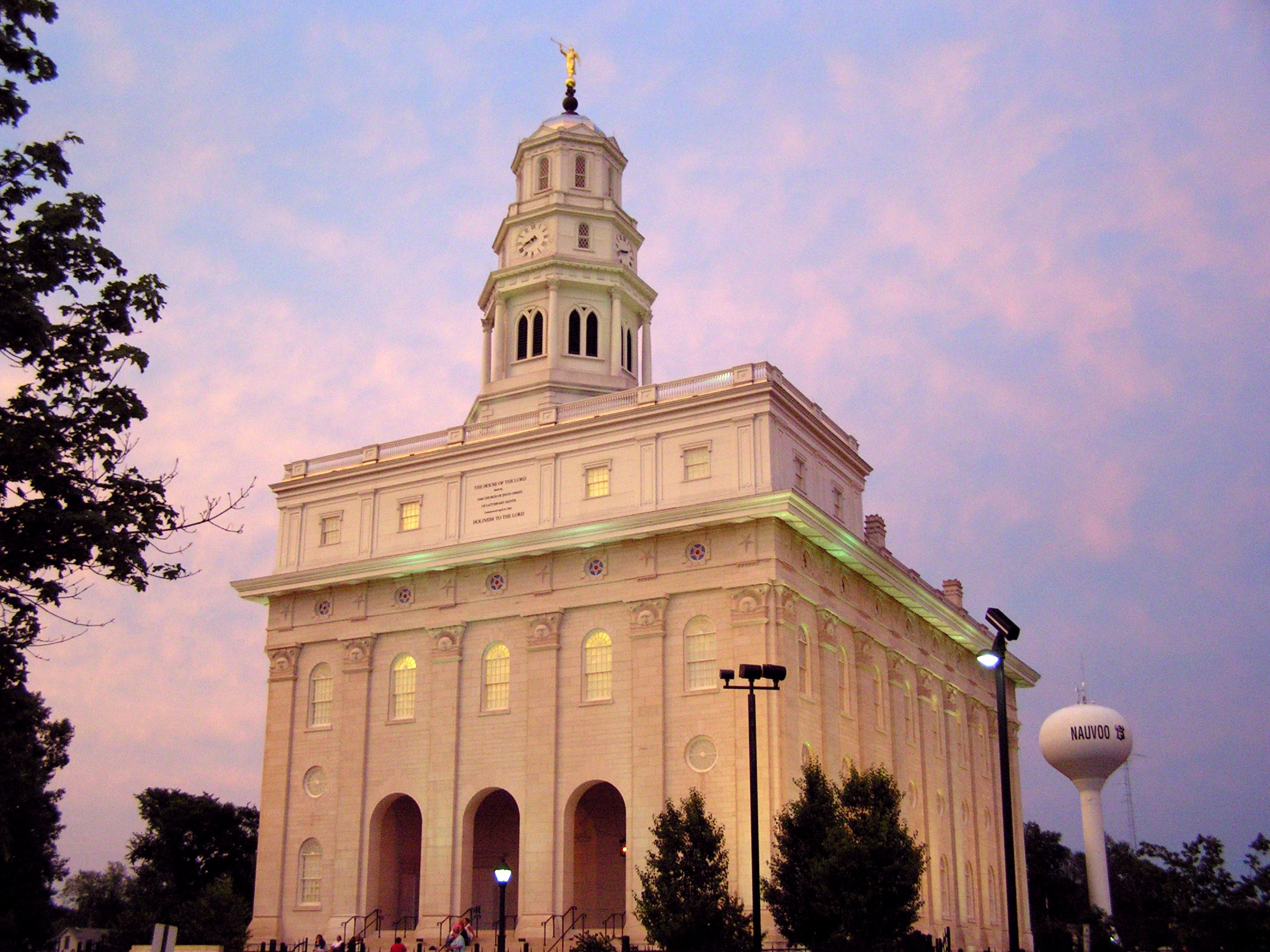 The newly rebuilt Nauvoo LDS Temple. The original building was completed in 1846, destroyed by arson in 1848, hit by a tornado in 1850, and completely demolished in 1856, just a few years, after the 1846 Mormon Exodus from Nauvoo. In 2002, the Church of Jesus Christ of Latter-Day Saints completed construction of this fully operational replica, which mirrors the original, as closely as limited historical records allow.